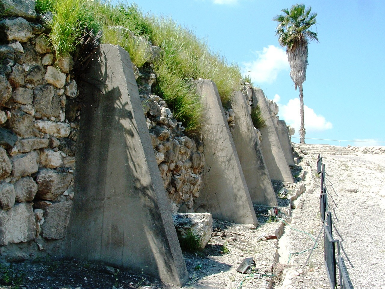 Tell Megiddo, Israel – Preservation with concrete pillars that damage the wall, old technique ca. 2006